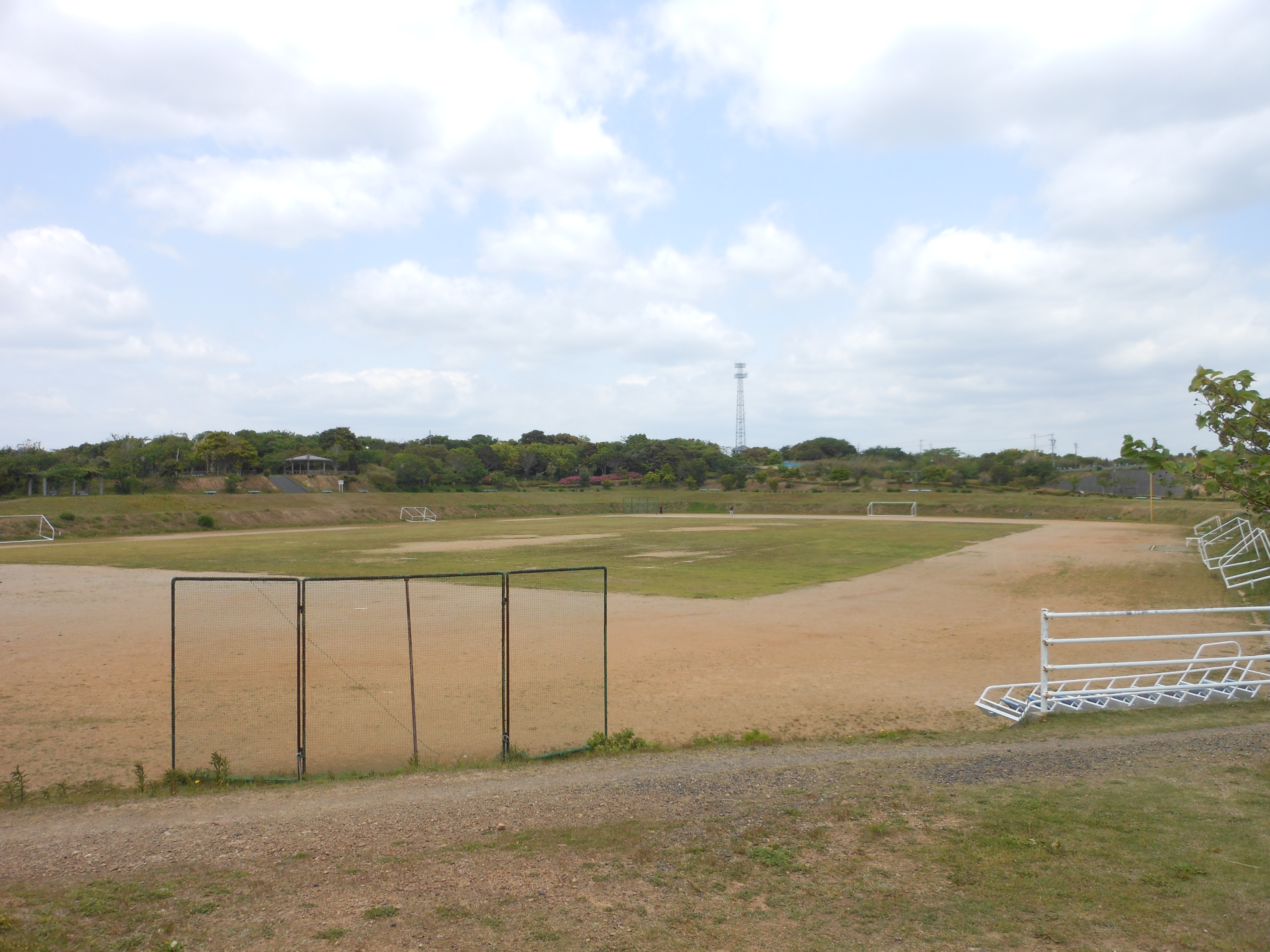 This is the multi ground of Shima City Shima General Sports Park, Which is located in Shima, Mie ,Japan.